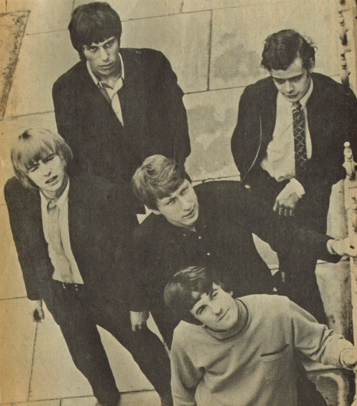 The Yardbirds in 1965. (left to right, top to bottom) Jeff Beck, Paul Samwell-Smith, Keith Relf, Chris Dreja and Jim McCarty